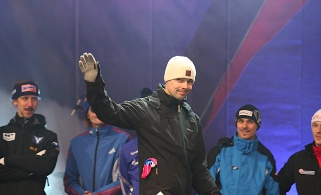 Matti Hautamäki during Adam's Bull's Eye on March 26, 2011 in Zakopane.